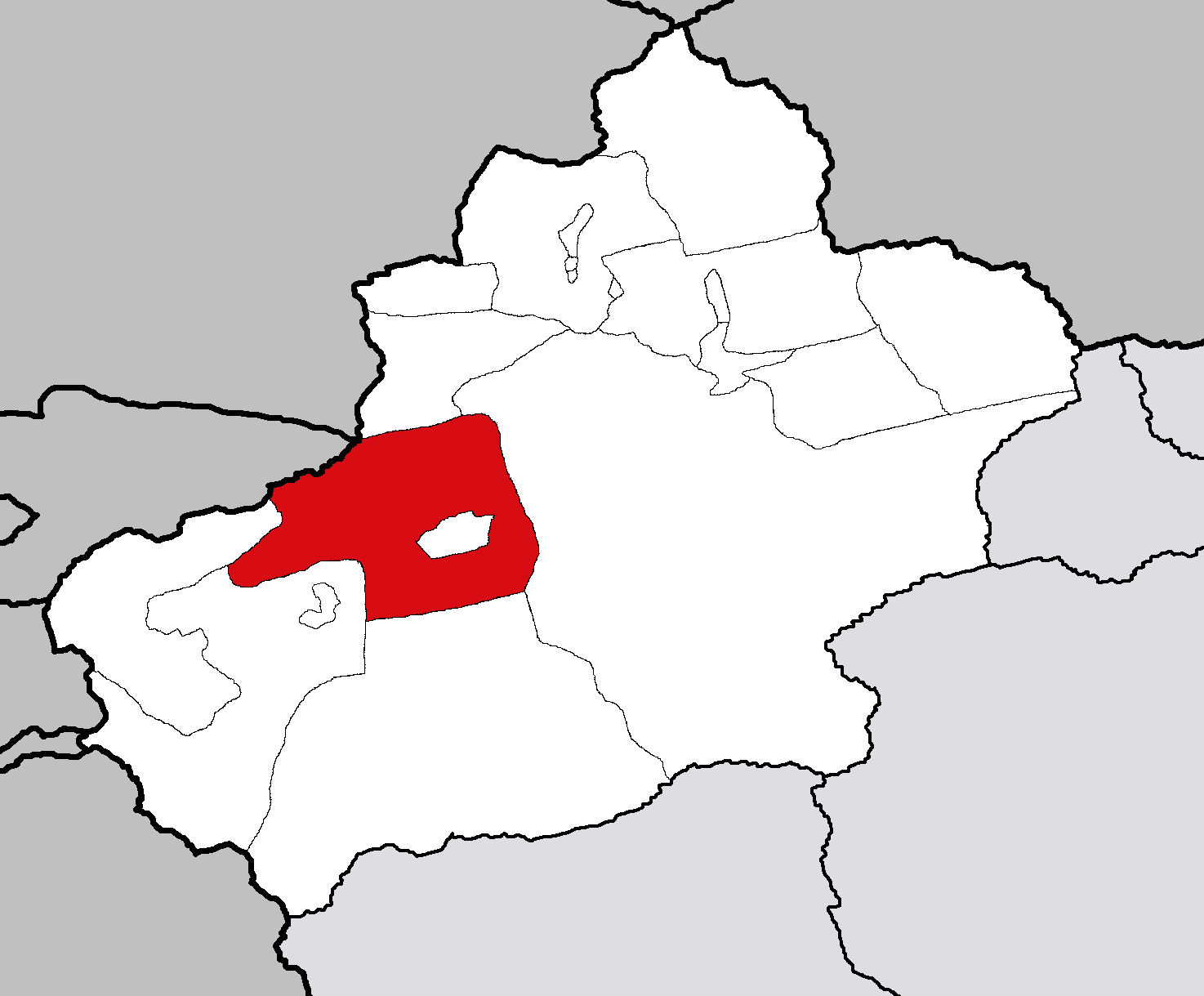 Maps of Xinjiang Uygur Autonomous Region of China